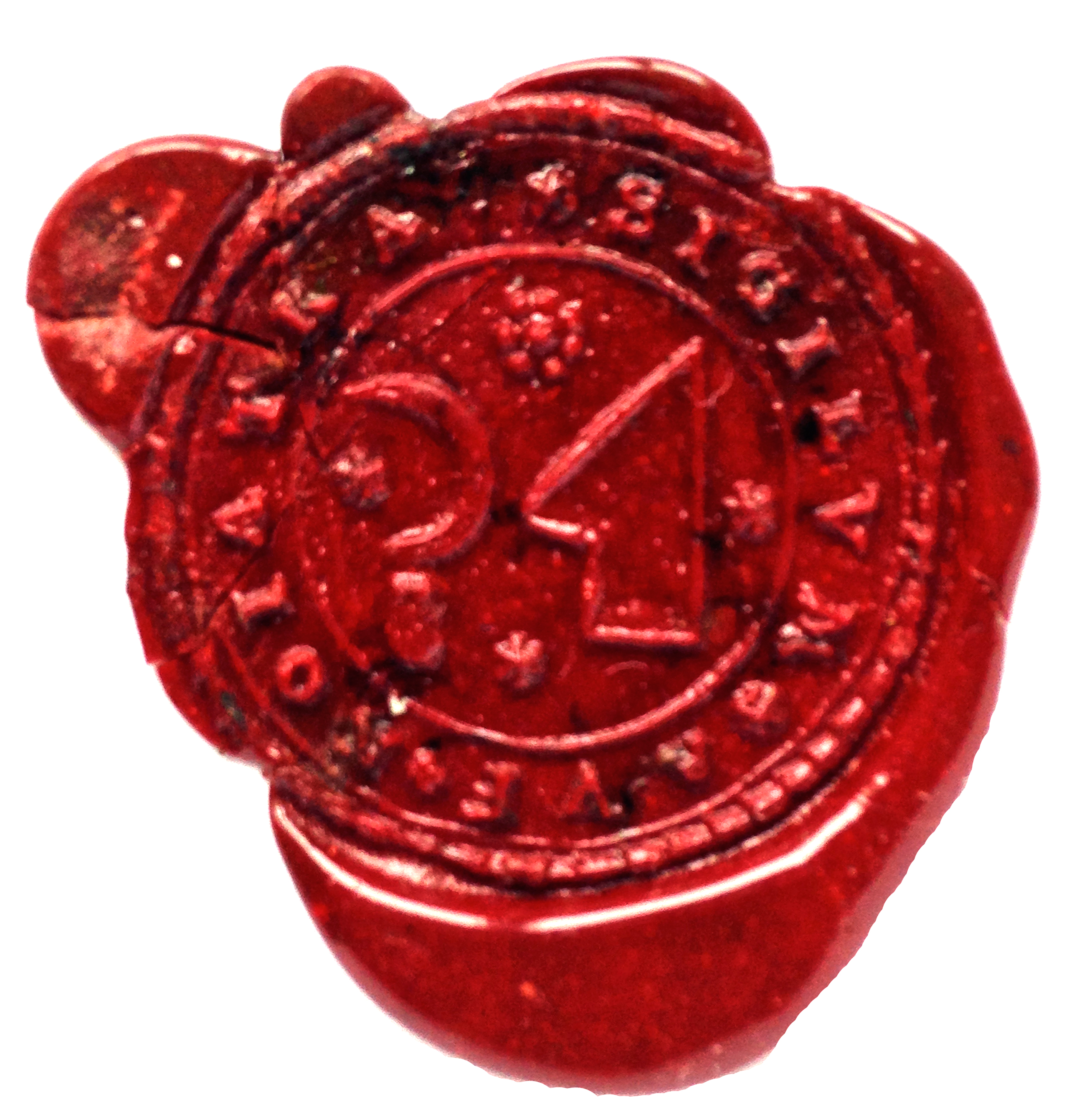 Sigil of the village Kojátky; imprint original from year 1749